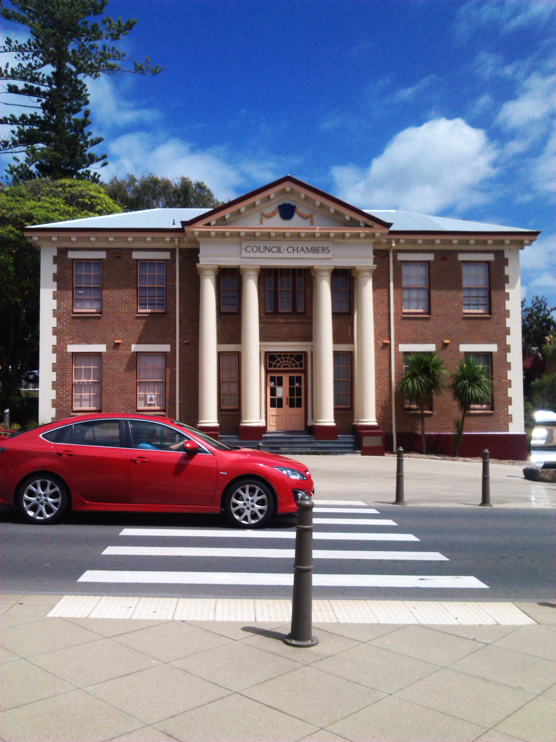 Kiama Town Council